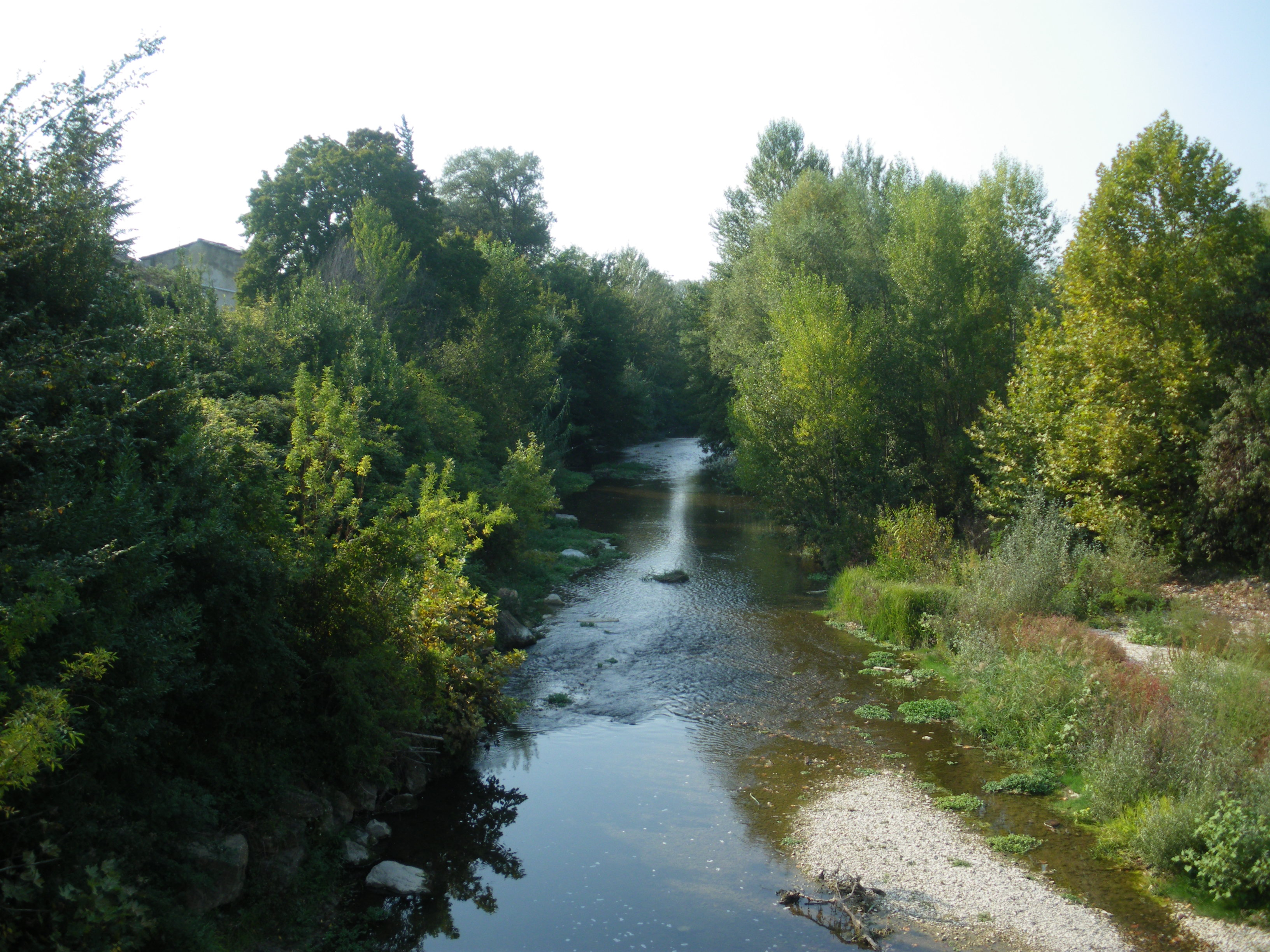 Lez river, in Suze la Rousse, Drome, France